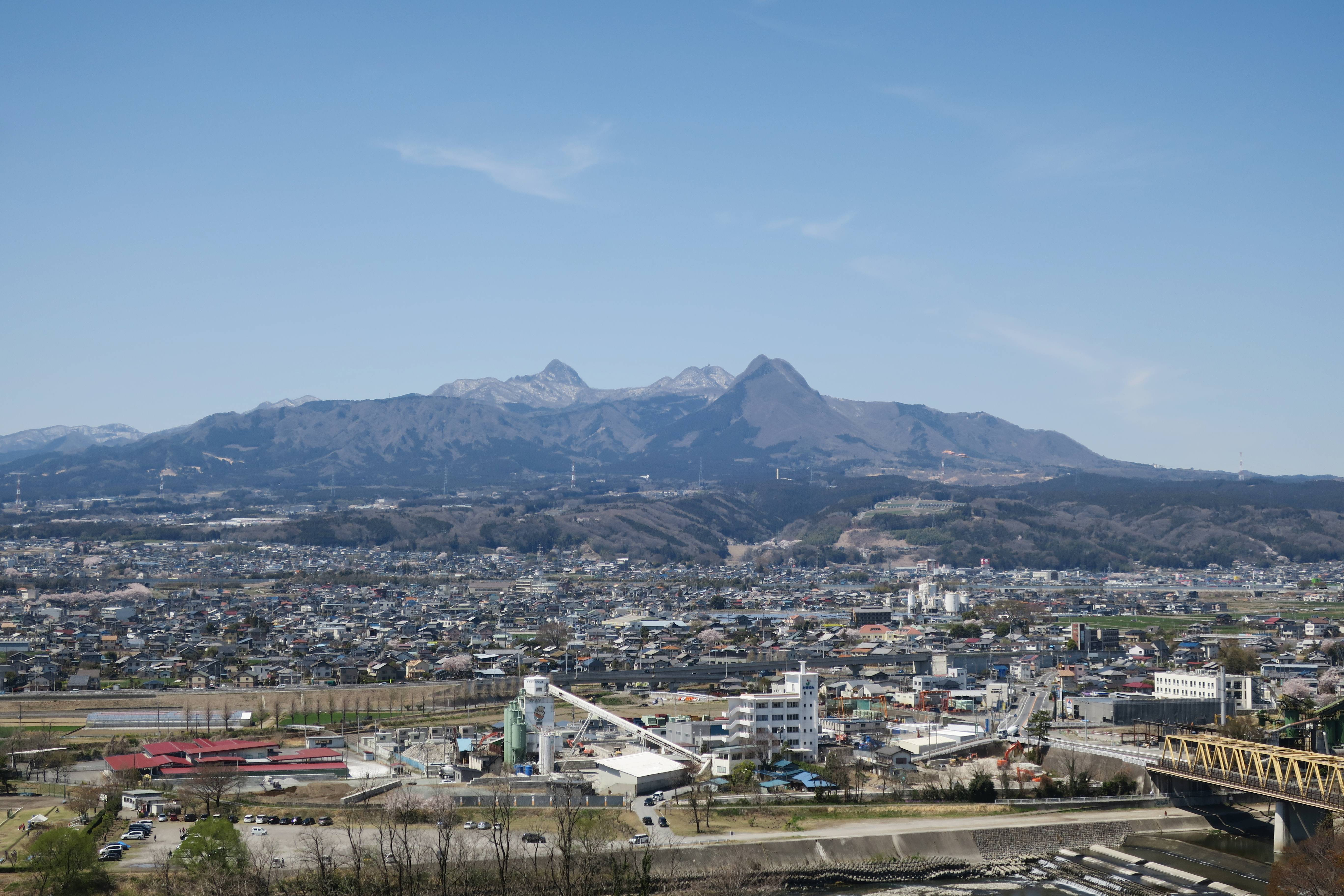 Mount Haruna view from Hokkitsu Onsen Tachibana no sato Shiroyama (Shibukawa, Gunma).